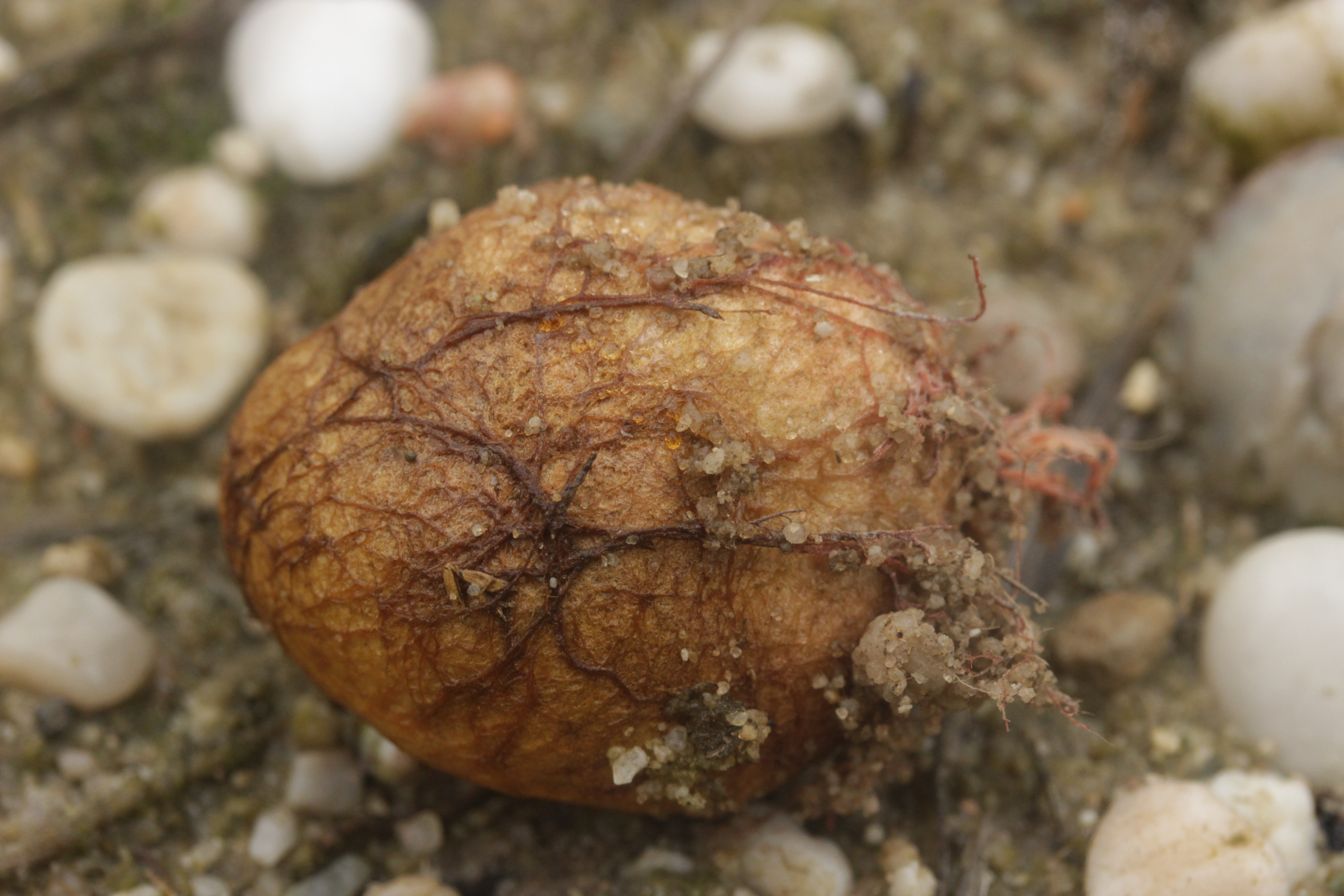 Yellow False Truffle - Rhizopogon luteolus